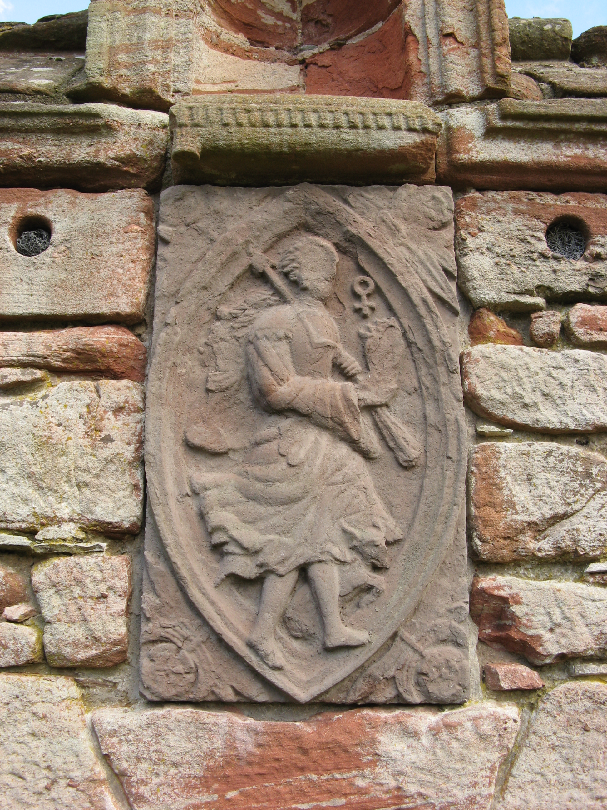 Edzell Castle, Angus, Scotland. One of the seven planetary deities carvings.